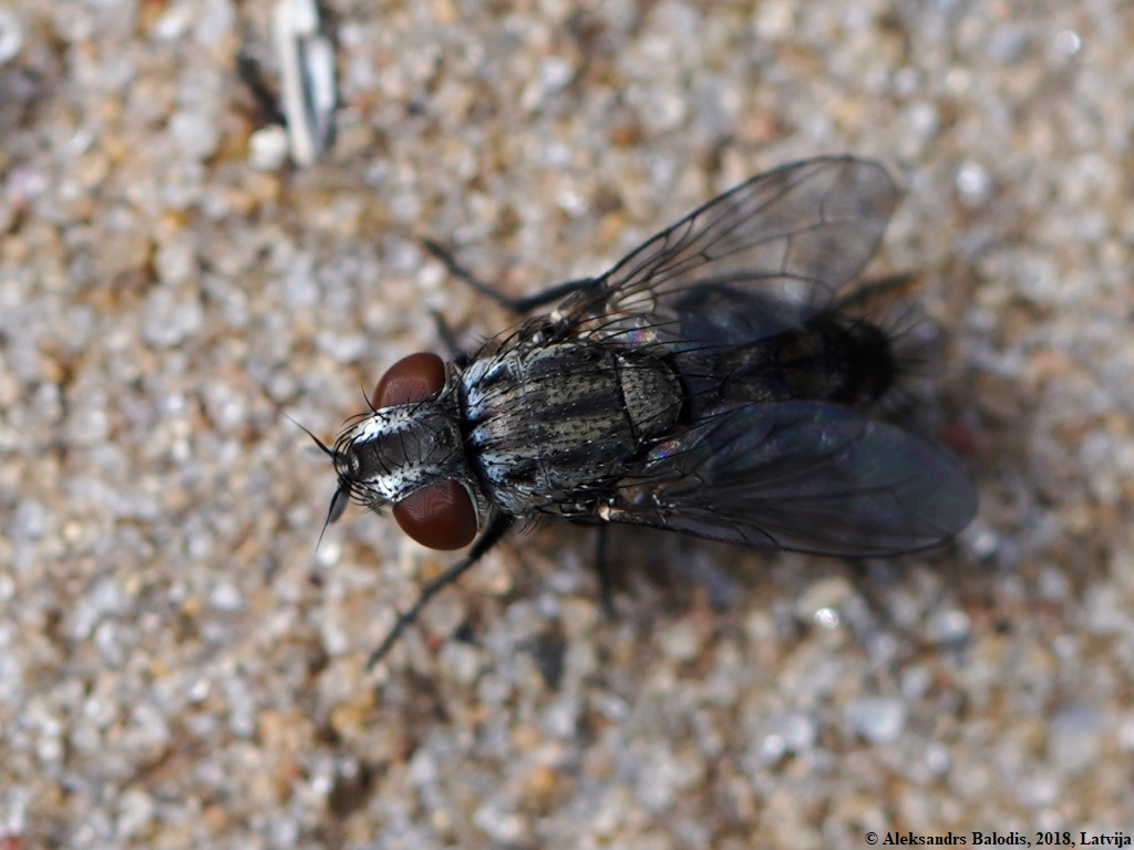 Metopia campestris